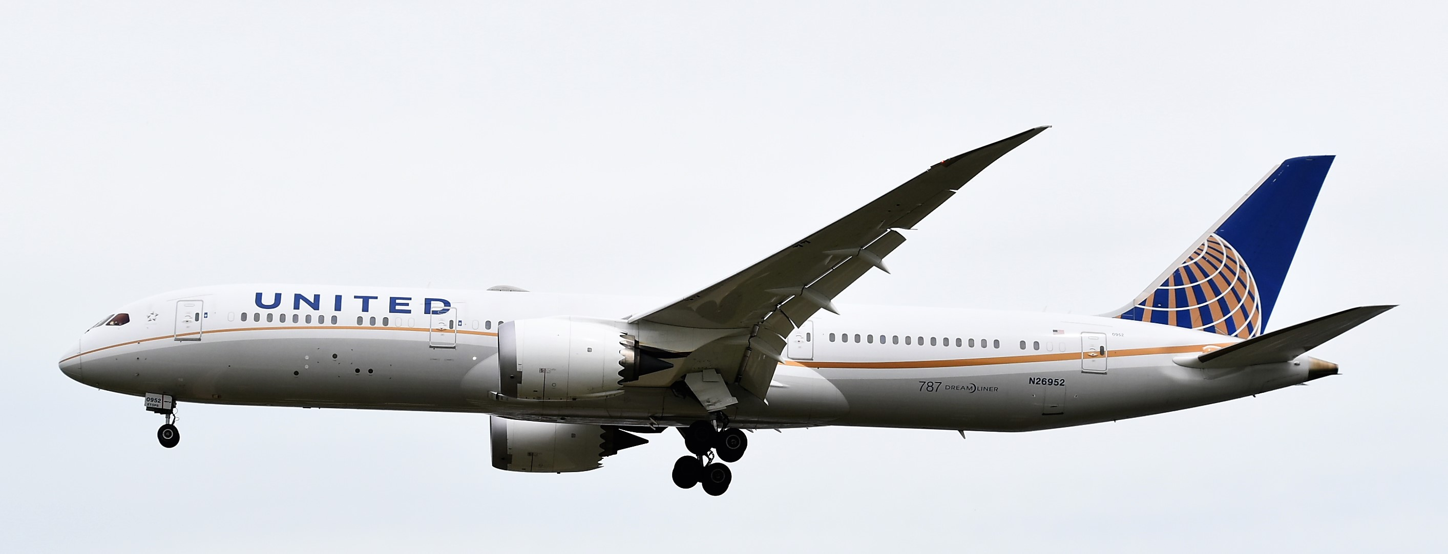 Boeing 787/9 of United Airlines on final approach,rwy.27L at Heathrow-LHR, 28/05/17.